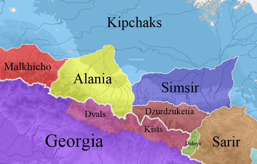 Map of mainly Alania, Simsir and Dzurduketia. Also some areas around